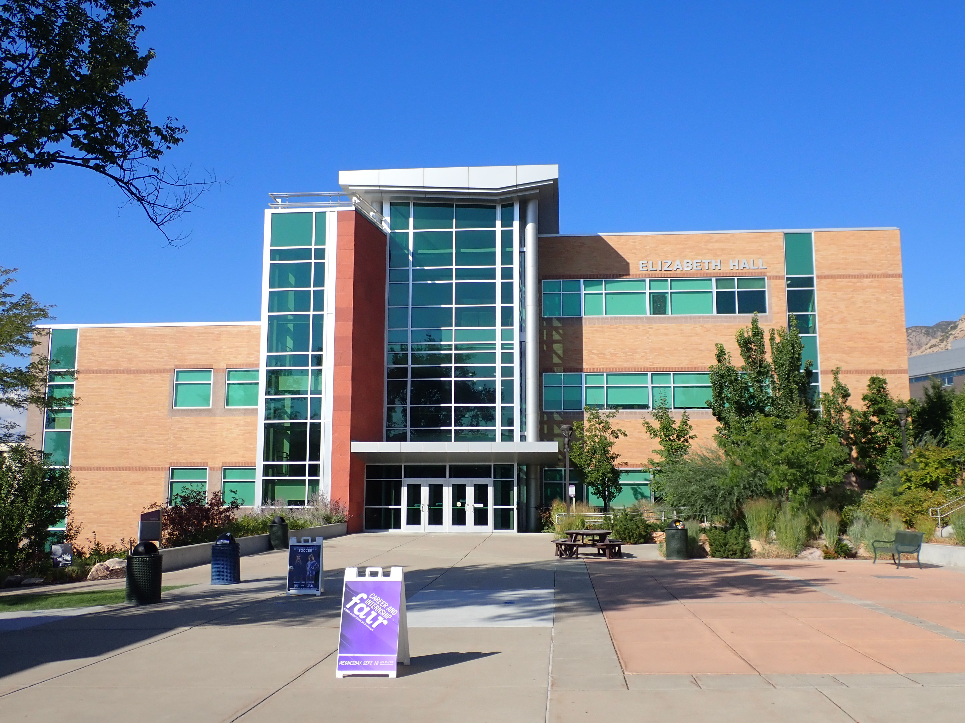 Elizabeth Hall, Weber State University Ogden, Utah, USA